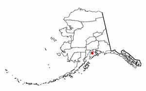 Adapted from Wikipedia's AK borough maps by Seth Ilys.